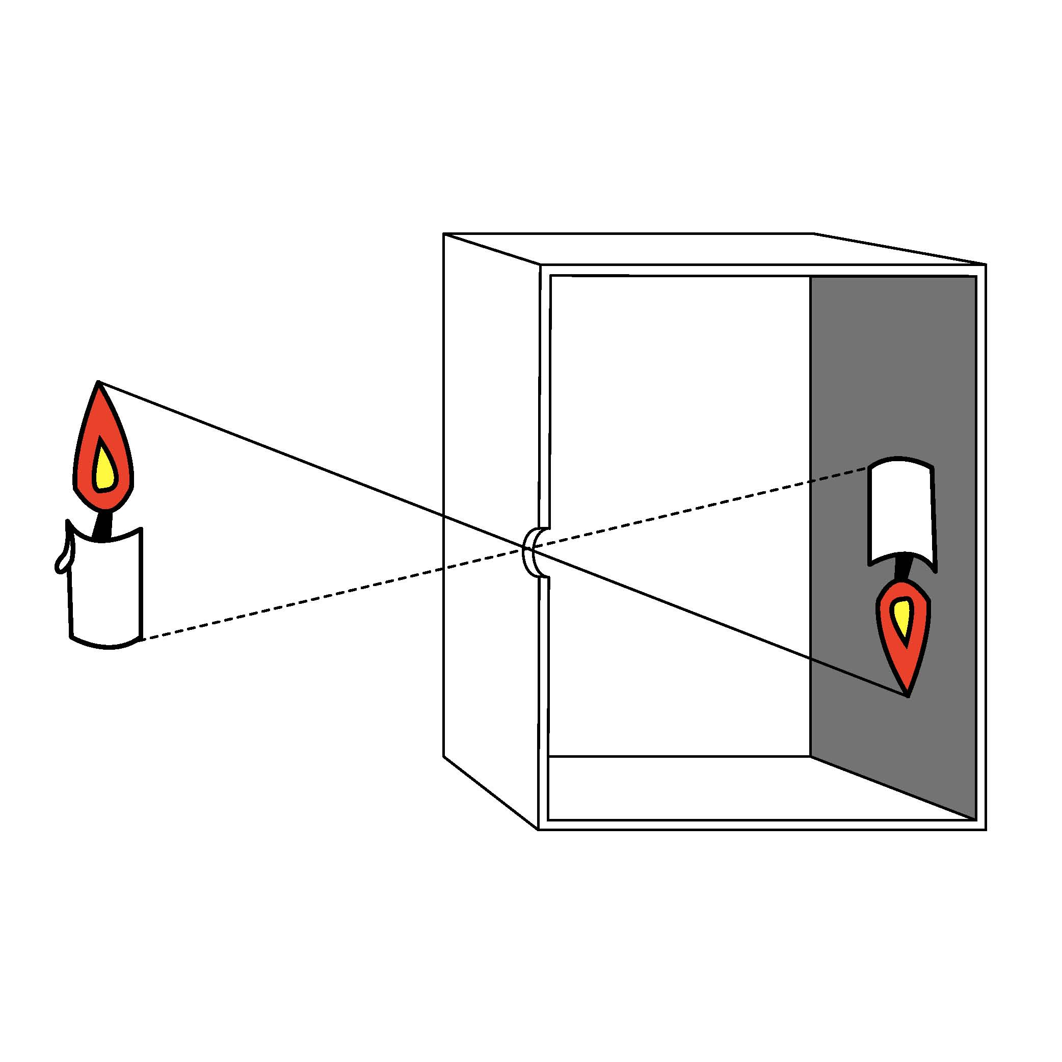 Principle of the camera obscura.